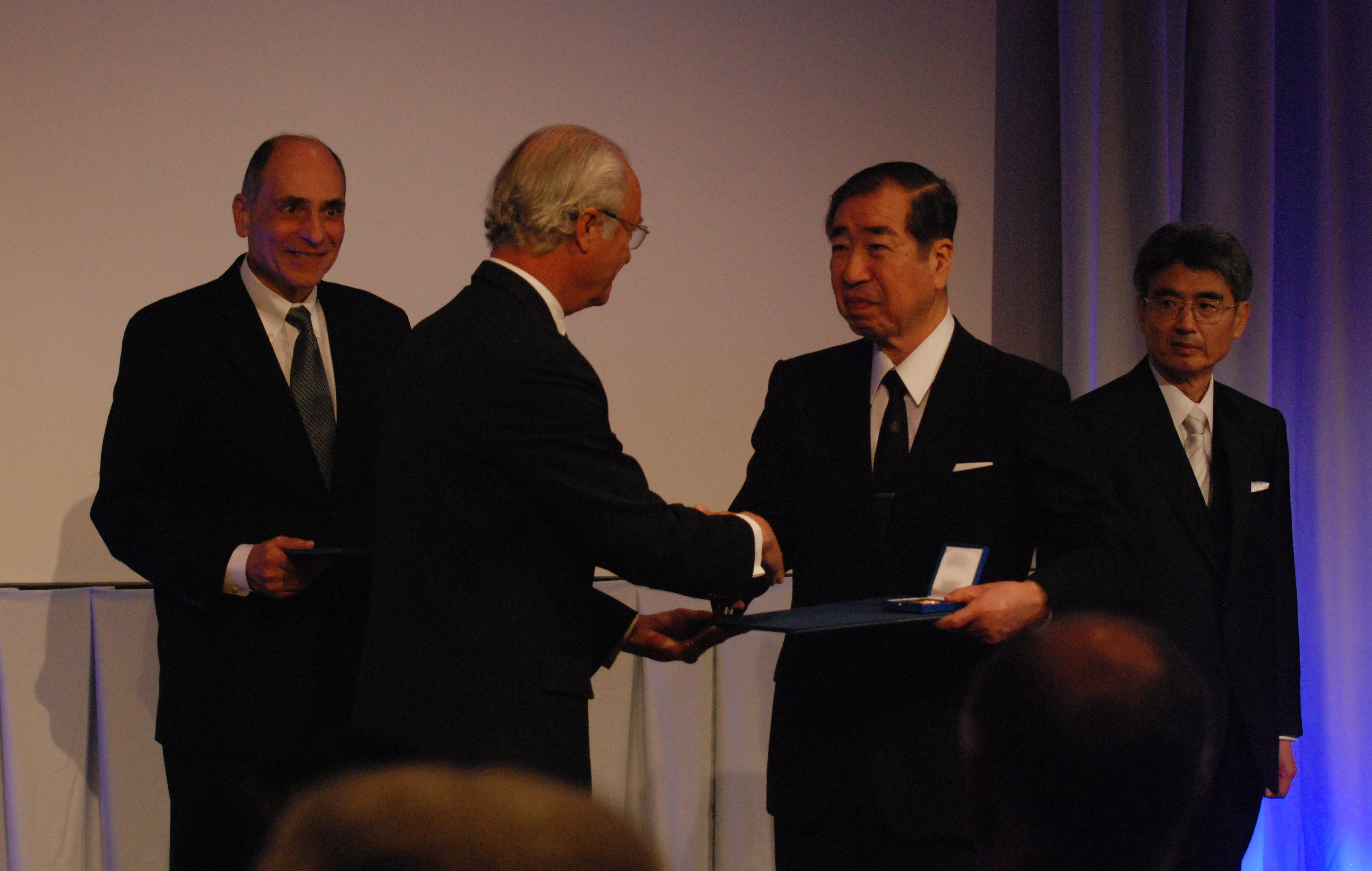 Crafoord Prize 2009, prize-awarding ceremony: H.M. Carl XVI Gustaf of Sweden presents the prize to Tadamitsu Kishimoto. In the backgroung are Charles A. Dinarello and Toshio Hirano.